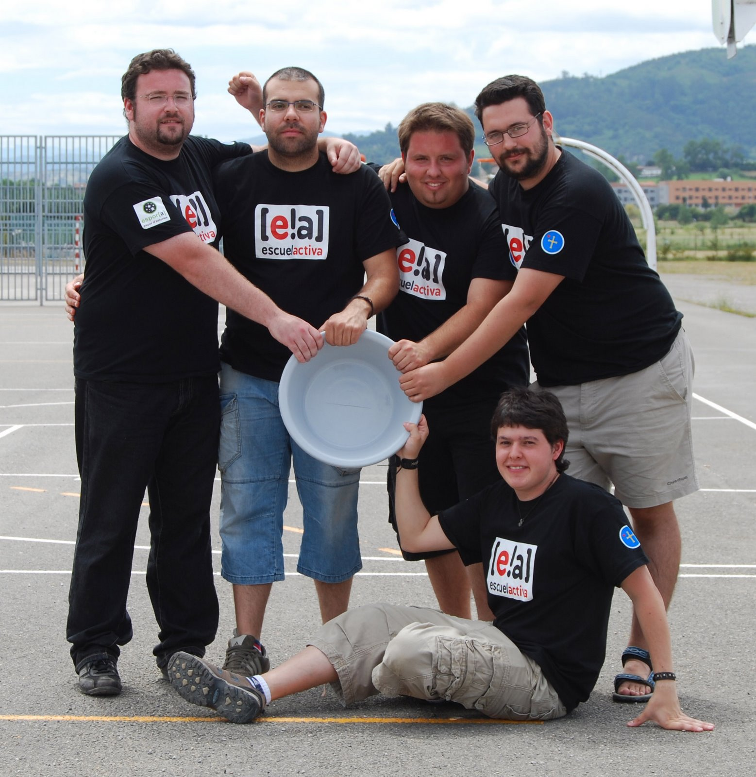 Equipu d'Espor d'Asturies ganador de la primer xornada del I Campionatu d'Asturies de Liriu. (LLamorgal, 18 de xunetu de 2009)